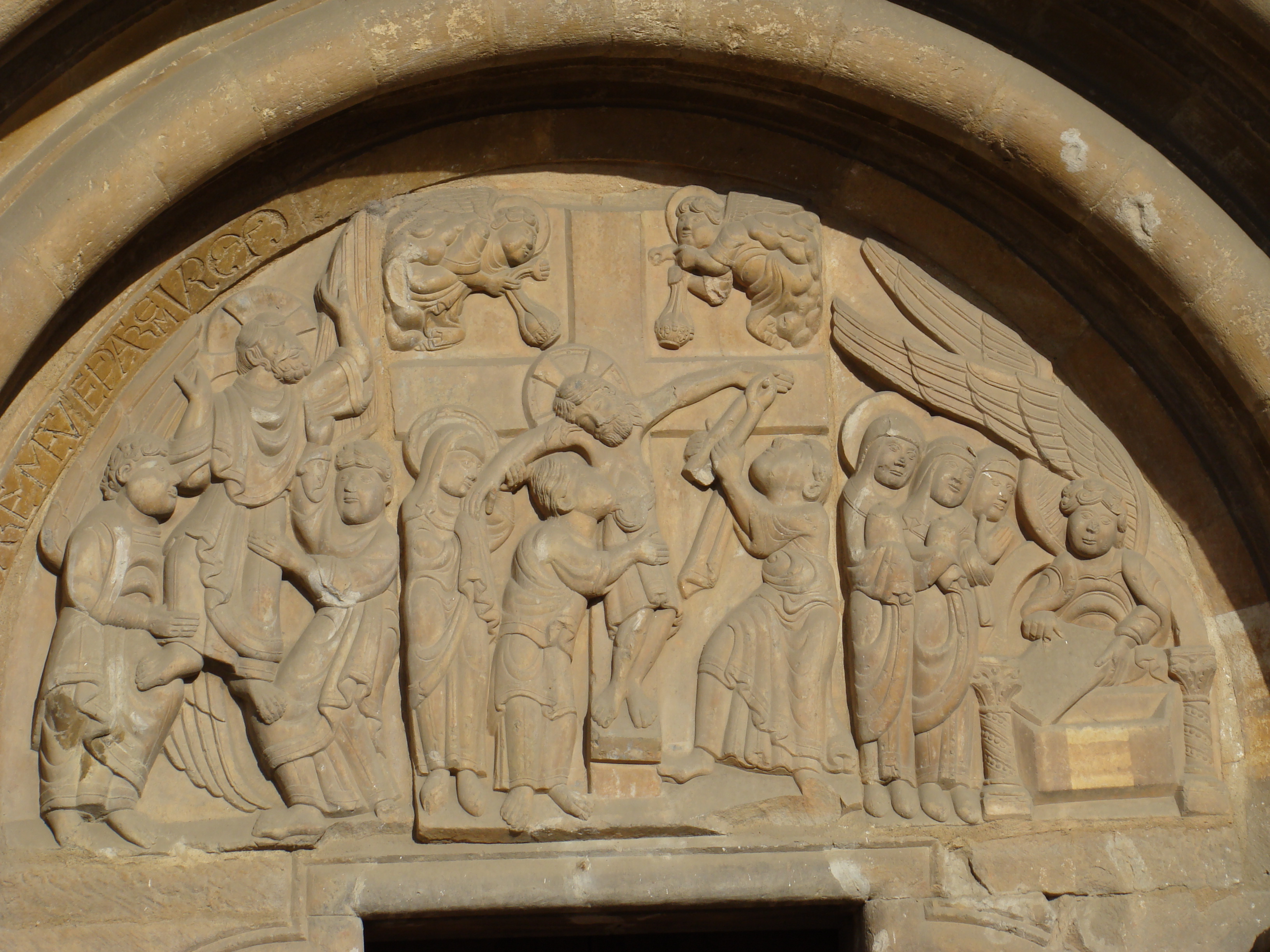 Basilica of San Isidoro in León, Spain. Tympanum of the forgiveness gate at the south facade.